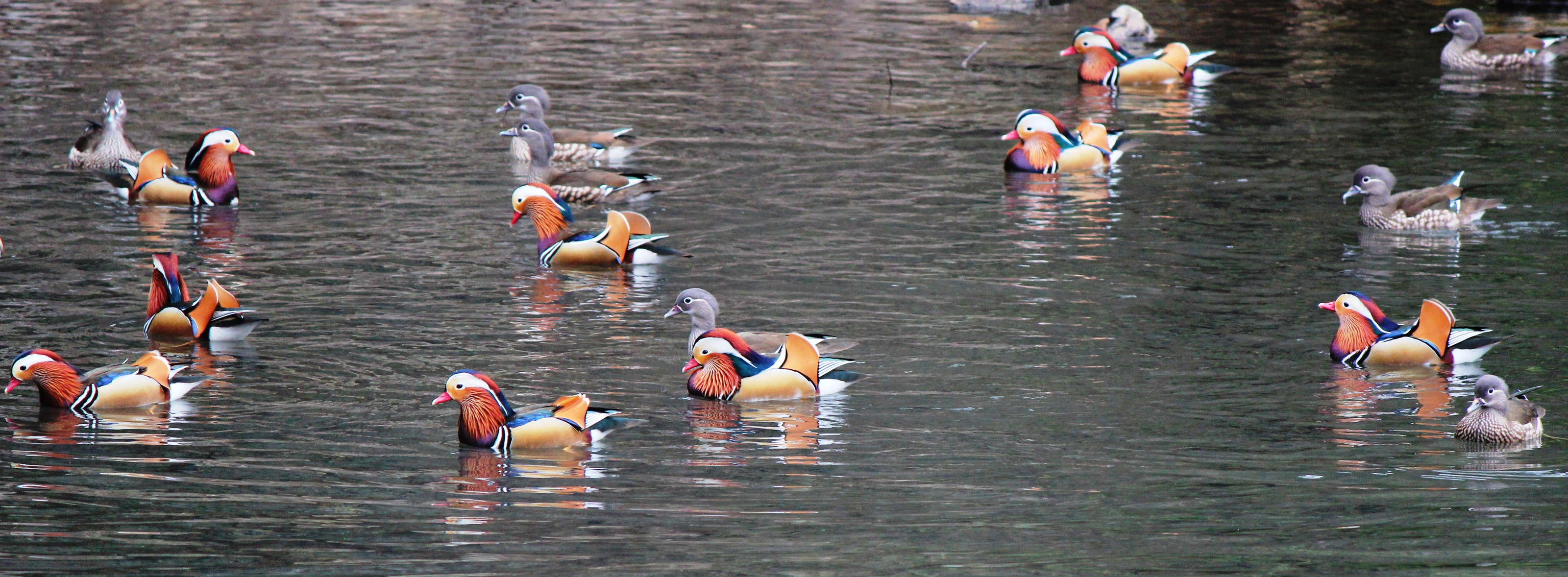 Flocks of Aix galericulata (Mandarin duck) in Gifu, Gifu, Japan.